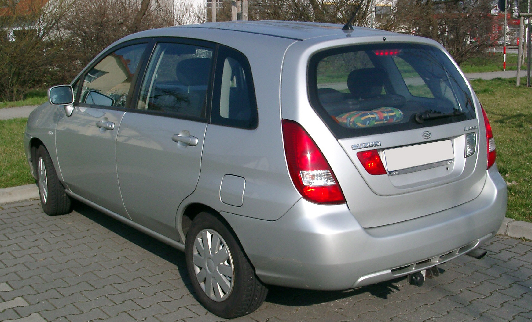 Suzuki Liana, the german version of Suzuki Aerio